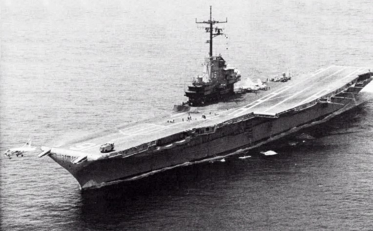 The U.S. Navy training aircraft carrier USS Lexington (AVT-16) launches a Naval Reserve Vought A-7 Corsair II in 1984.